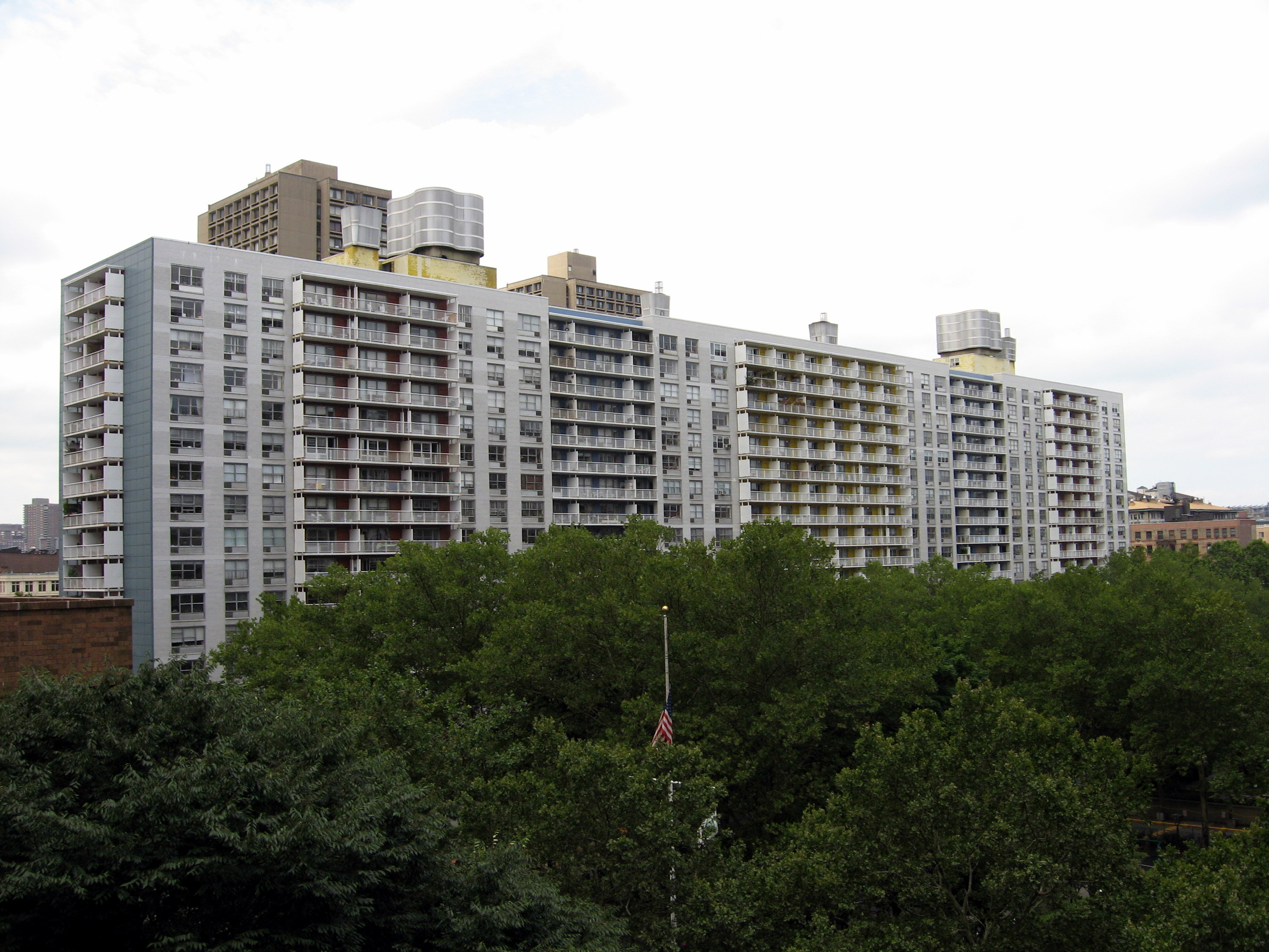 The Washington Square Village housing complex of New York University in the Greenwich Village neighborhood of Manhattan, New York City, was built in 1956-1958. It was designed by S. J. Kessler, with Paul Lester Weiner the consultant for design and site planning, and was an indication of what "city planning" meant at the time. (Source: AIA Guide to NYC (4th ed.))